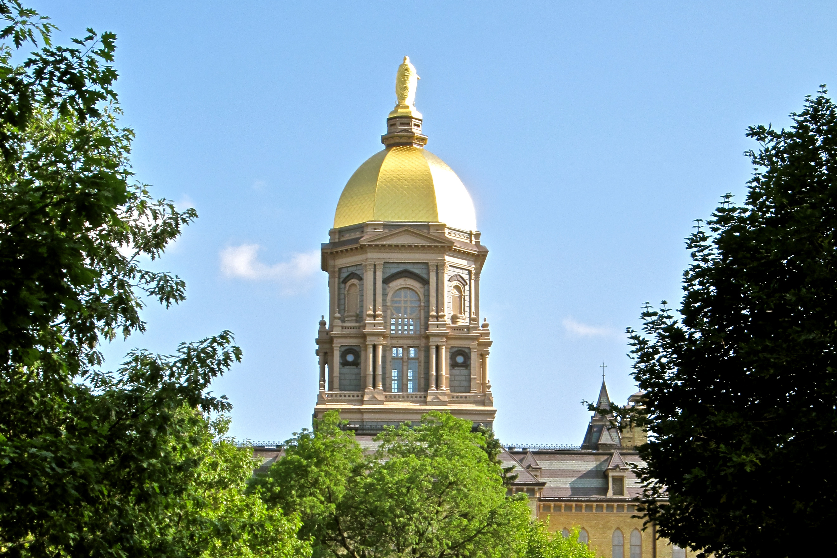 University of Notre Dame: Main and South Quadrangles